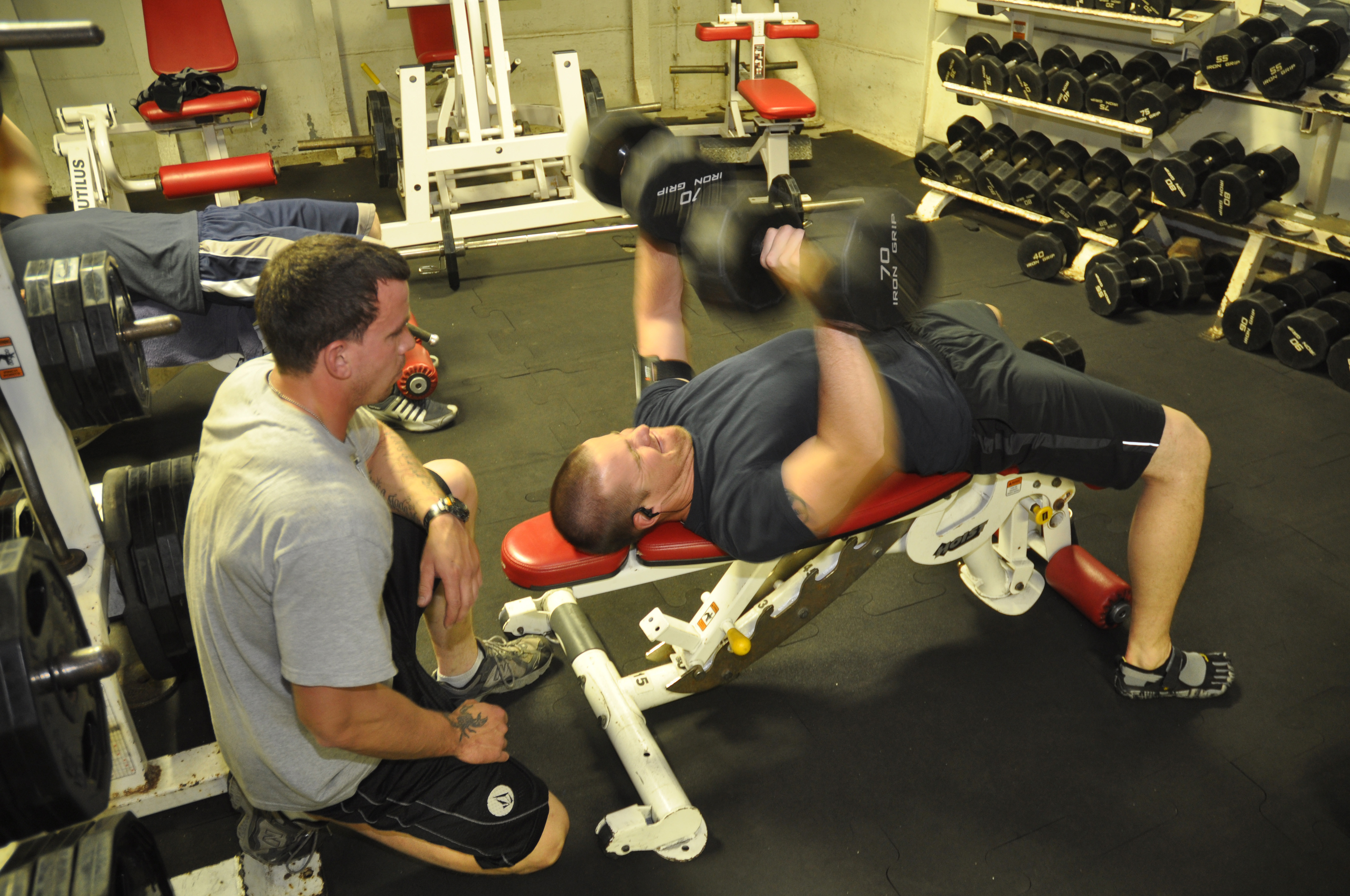 MEDITERRANEAN SEA (March 12, 2011) Gunner's Mate 2nd Class Joshua Leach spots Seaman Myles Stratton while lifting weights in the workout room aboard the amphibious transport dock ship USS Ponce (LPD 15). Ponce is part of the Kearsarge Amphibious Ready Group supporting maritime security operations and theater security cooperation efforts in the U.S. 6th Fleet area of responsibility. (U.S. Navy photo by Mass Communication Specialist 1st Class Nathanael Miller/Released)